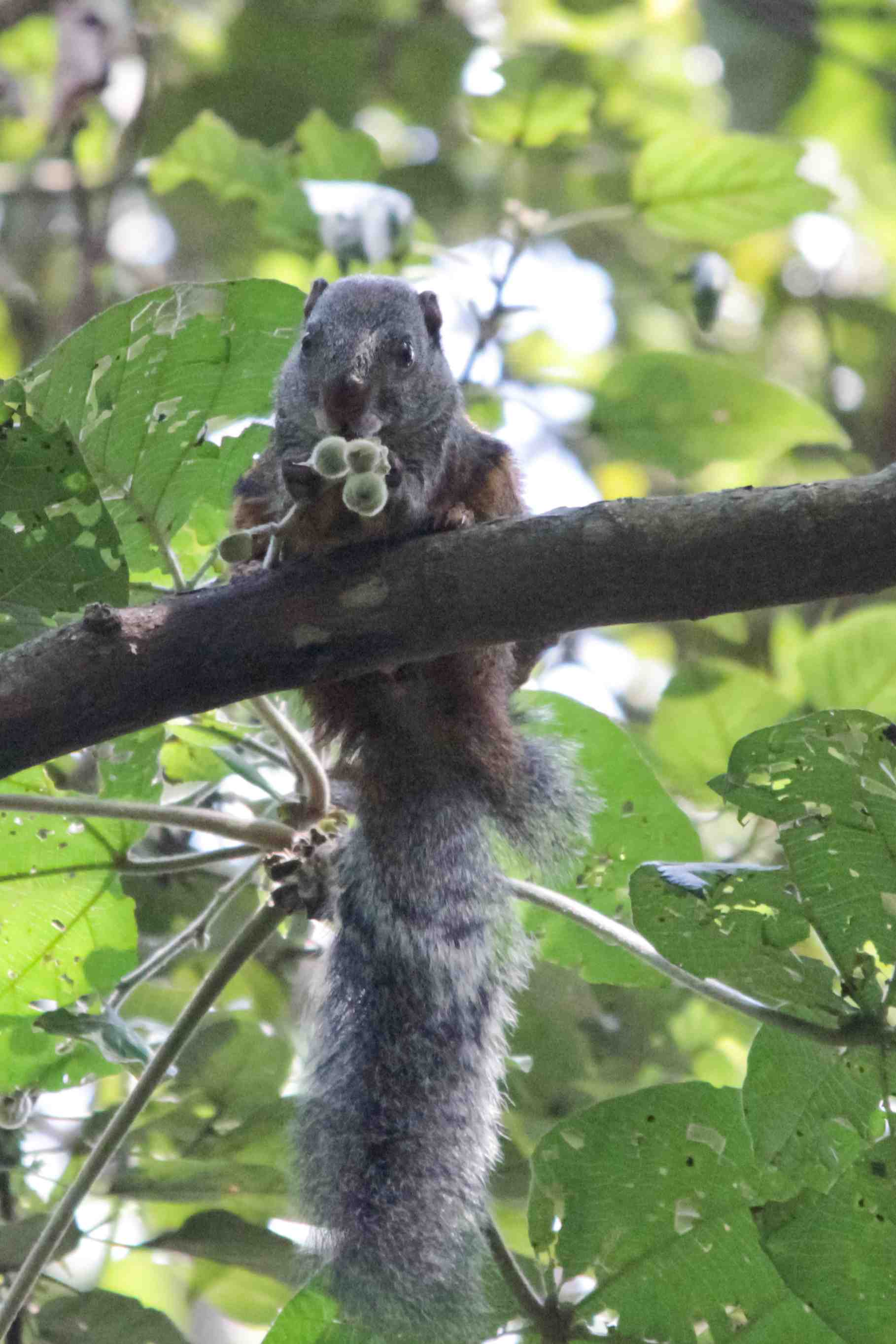 Afican Giant Squirrel - Protoxerus stangeri. Photographed in South Nandi Forest, Kenya